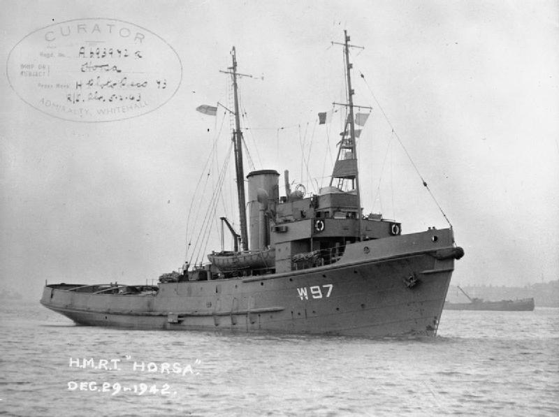 Horsa Underway in the River Humber